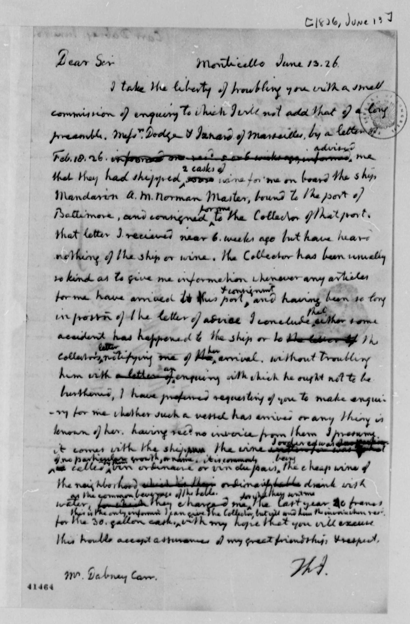 Letter by Thomas Jefferson to his friend Dabney Carr, sent from Monticello, Jefferson's residence in Albemarle County, Virginia, 1826. The Thomas Jefferson Papers, Series 1, General Correspondence. The Library of Congress, Washington, D. C.